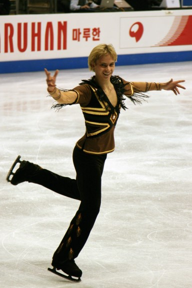 Andrei Lutai at the 2009 World Figure Skating Championships.